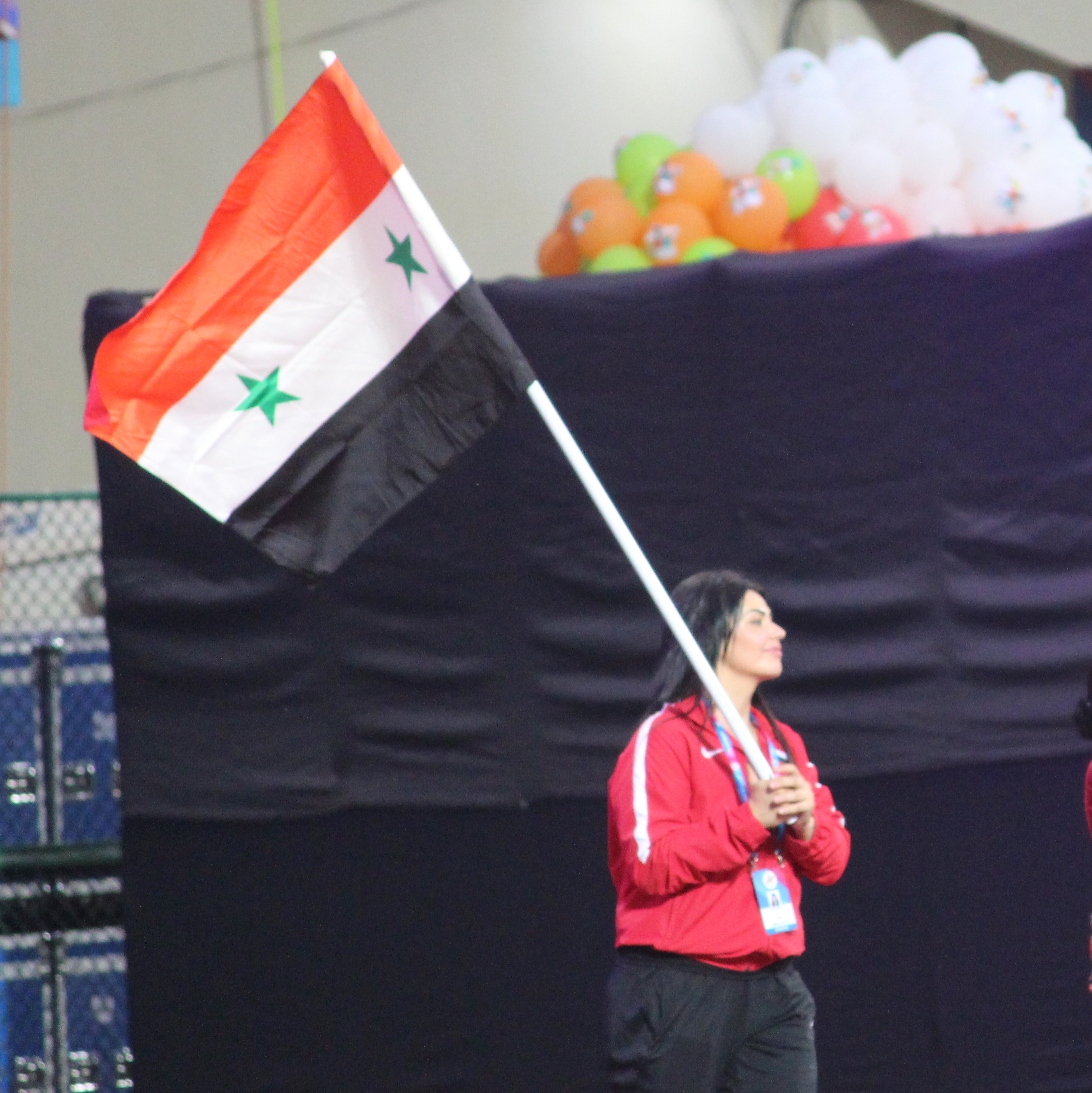 Hiba Omar - one of the athletes from Syria bearing the national flag during the opening ceremony of 22nd Asian Athletics Championships.